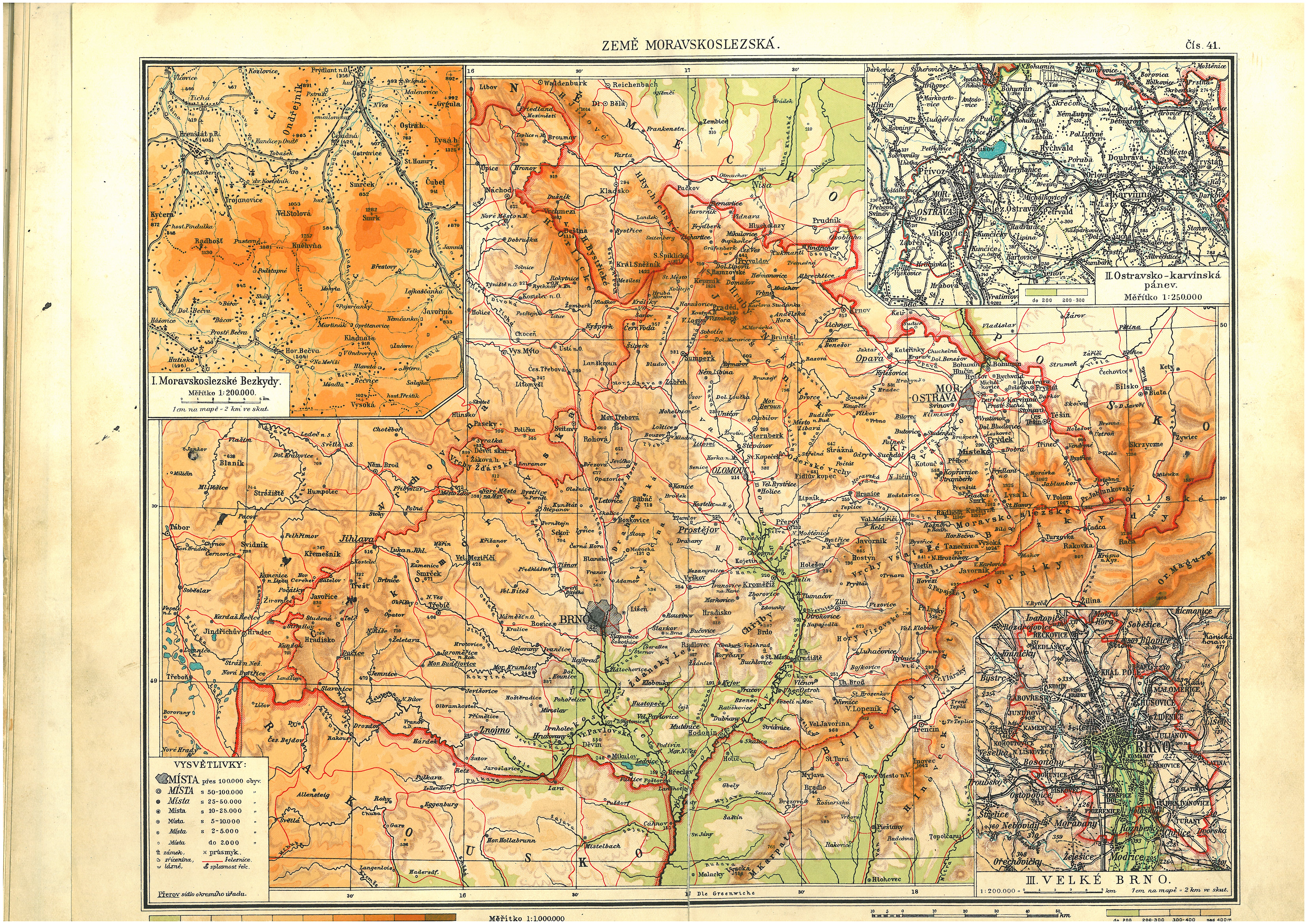 Fysical map of Moravia - Atlas for gramar school published in Czechoslovakia befor WW II